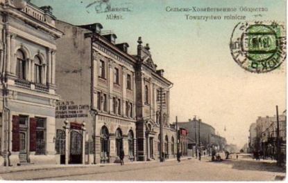 Minsk city, Zaharevskaya street, Minsk agricultural society house, photoed before 1918 AD, Russian empire